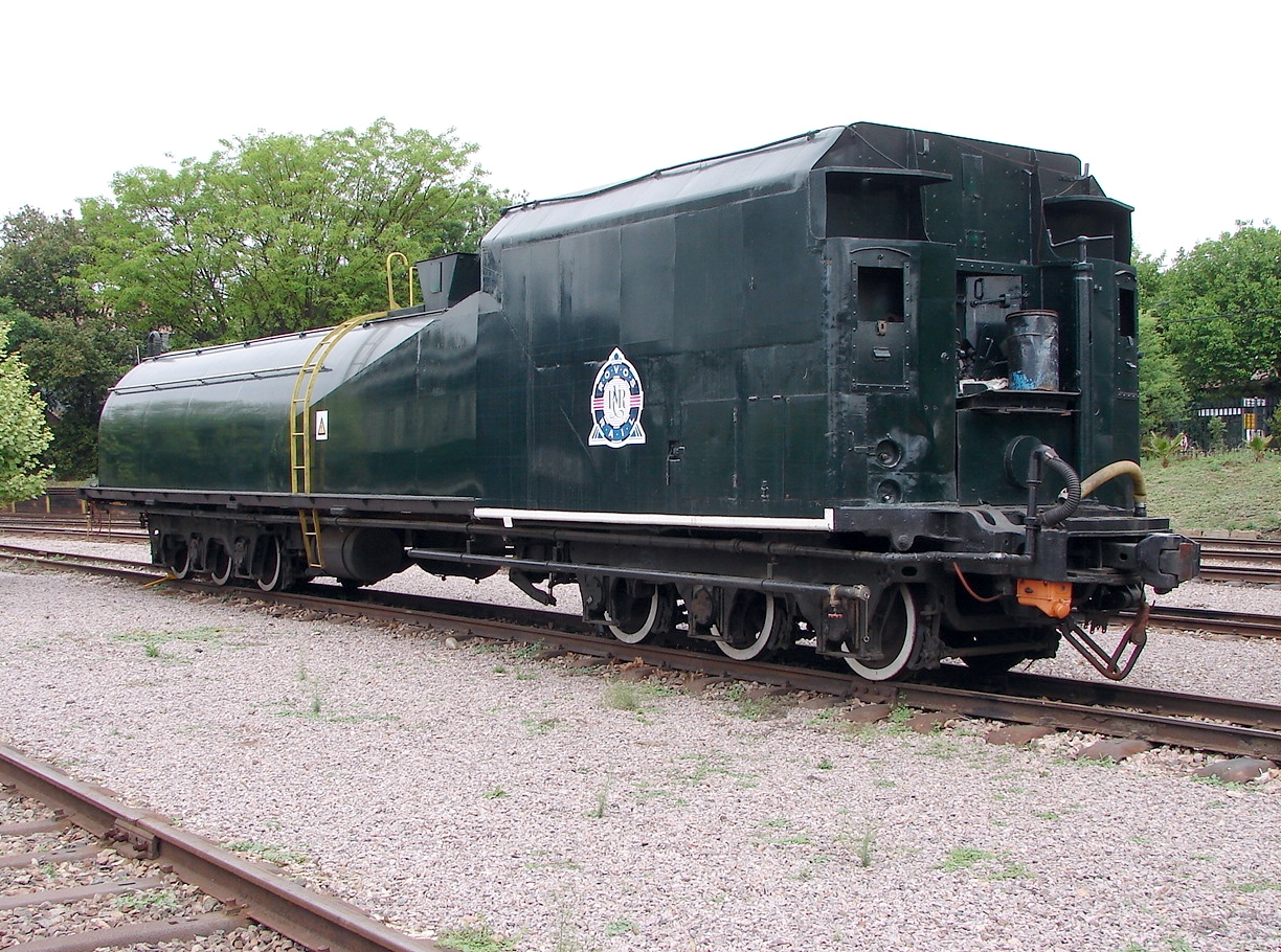 "Worshond" Type CZ rebuilt tender bearing a weld-written number matching it to Class 25NC 3480 Builder: Henschel Location: Capital Park, Pretoria, Gauteng